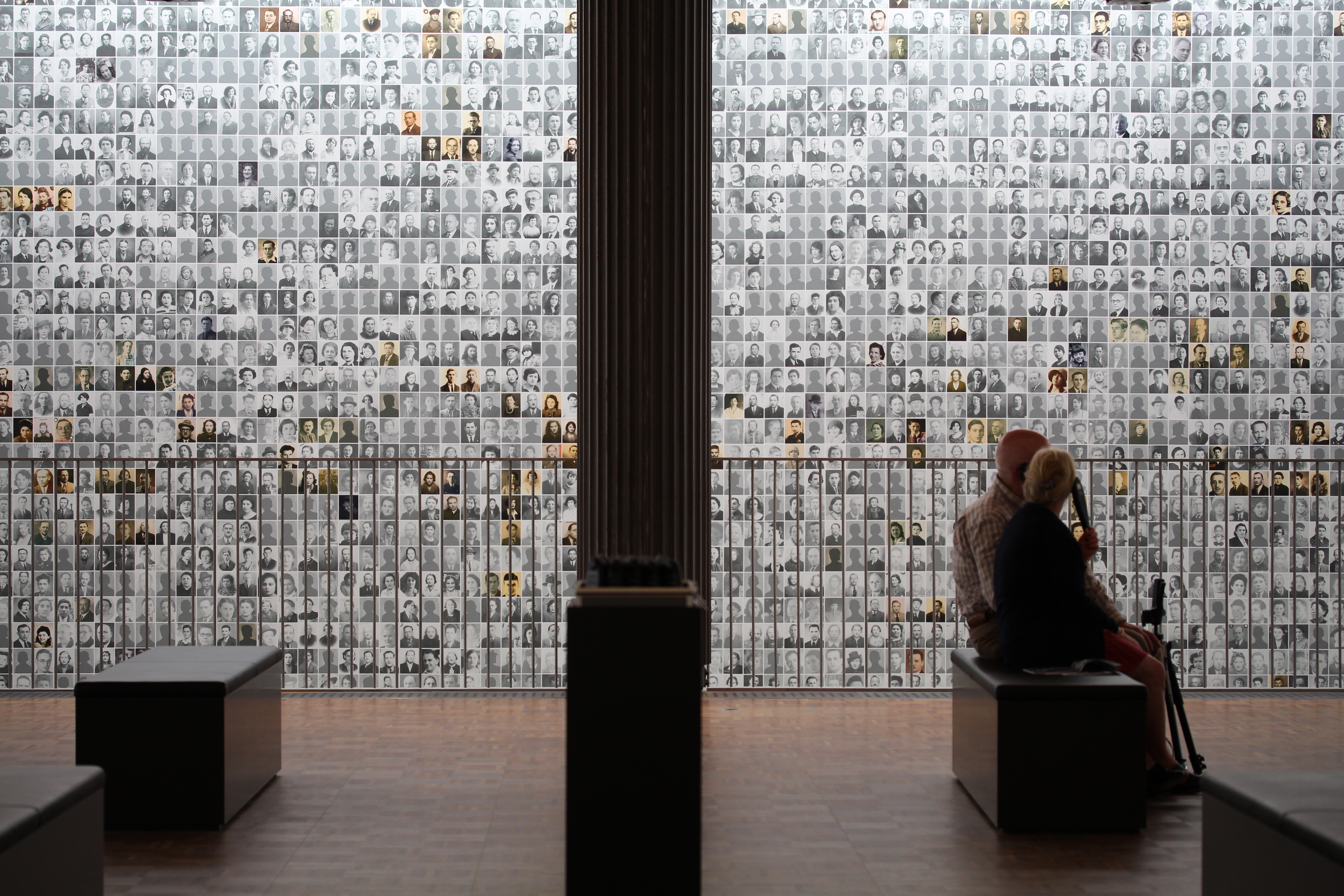 Wall of faces, Kazerne Dossin memorial, during Wiki Loves Art, Mechelen, Belgium